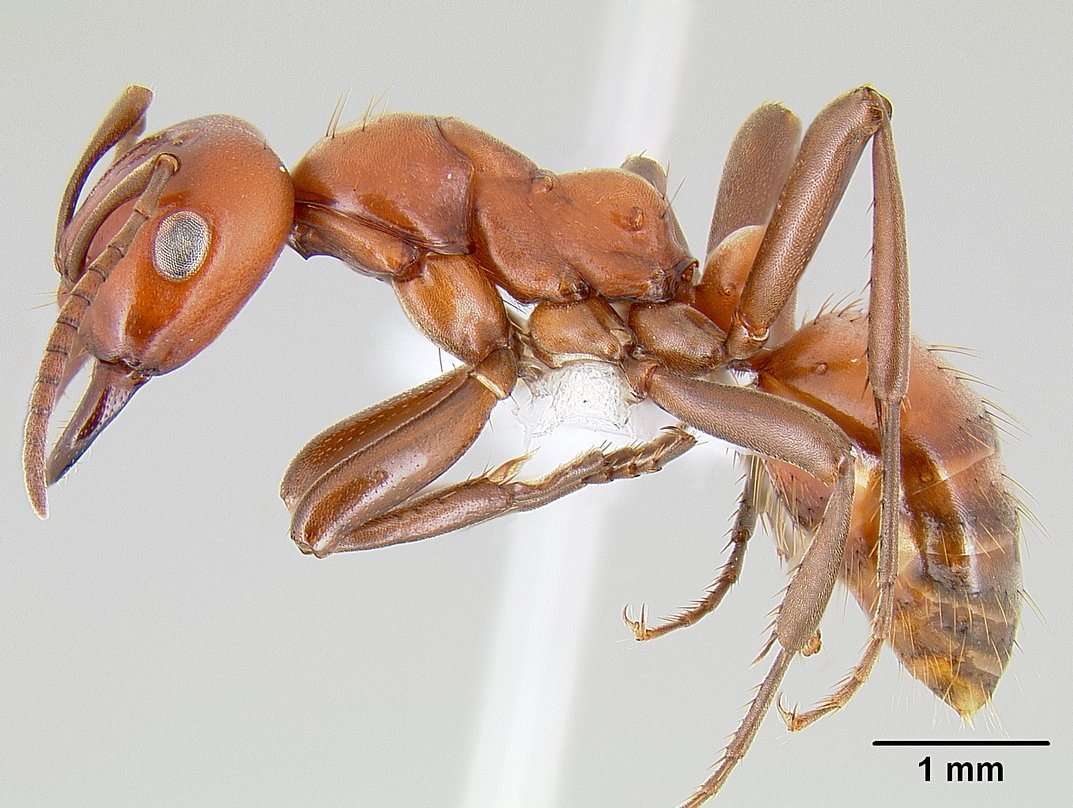 Profile view of ant Polyergus breviceps specimen casent0106048.